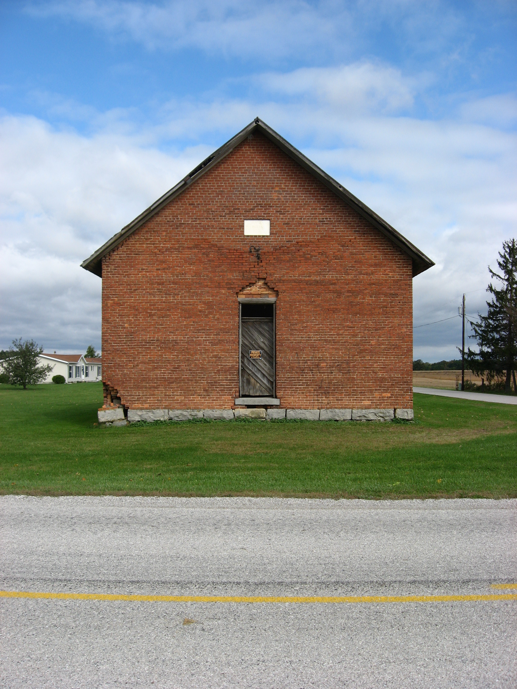 Former township school in Bowling Green Township, Marion County, Ohio, United States, located on the northwestern corner of the intersection of Clark and LaRue-Marion Roads.